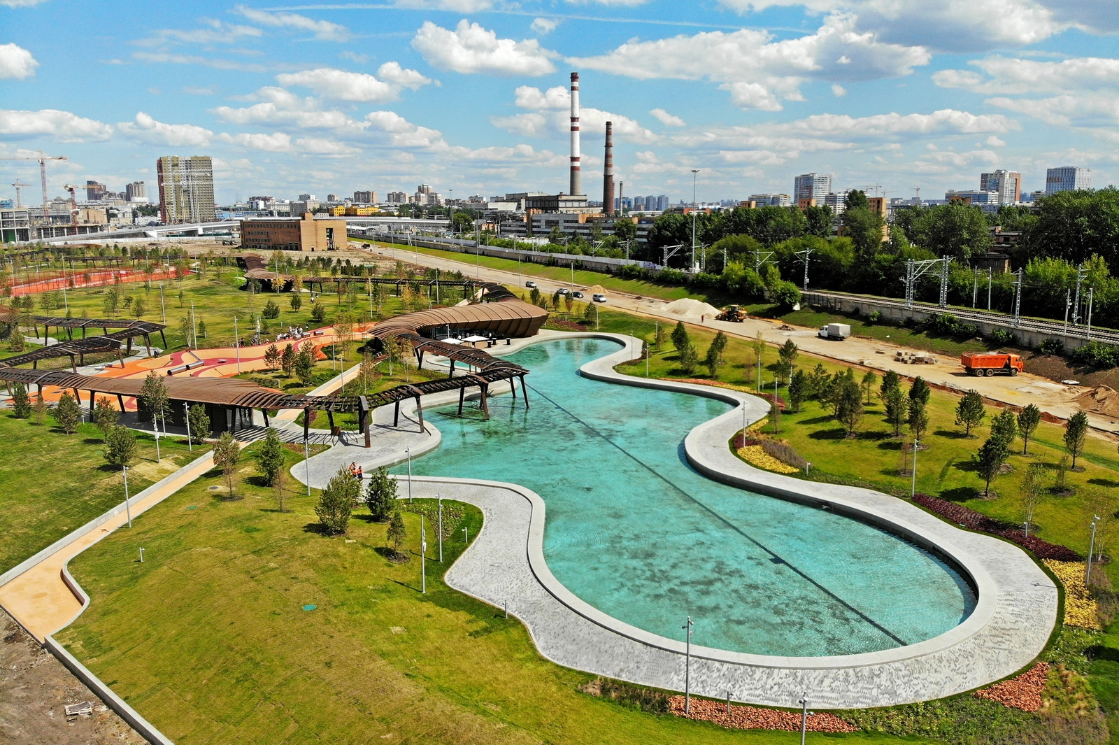 Tufeleva rosha park in Moscow